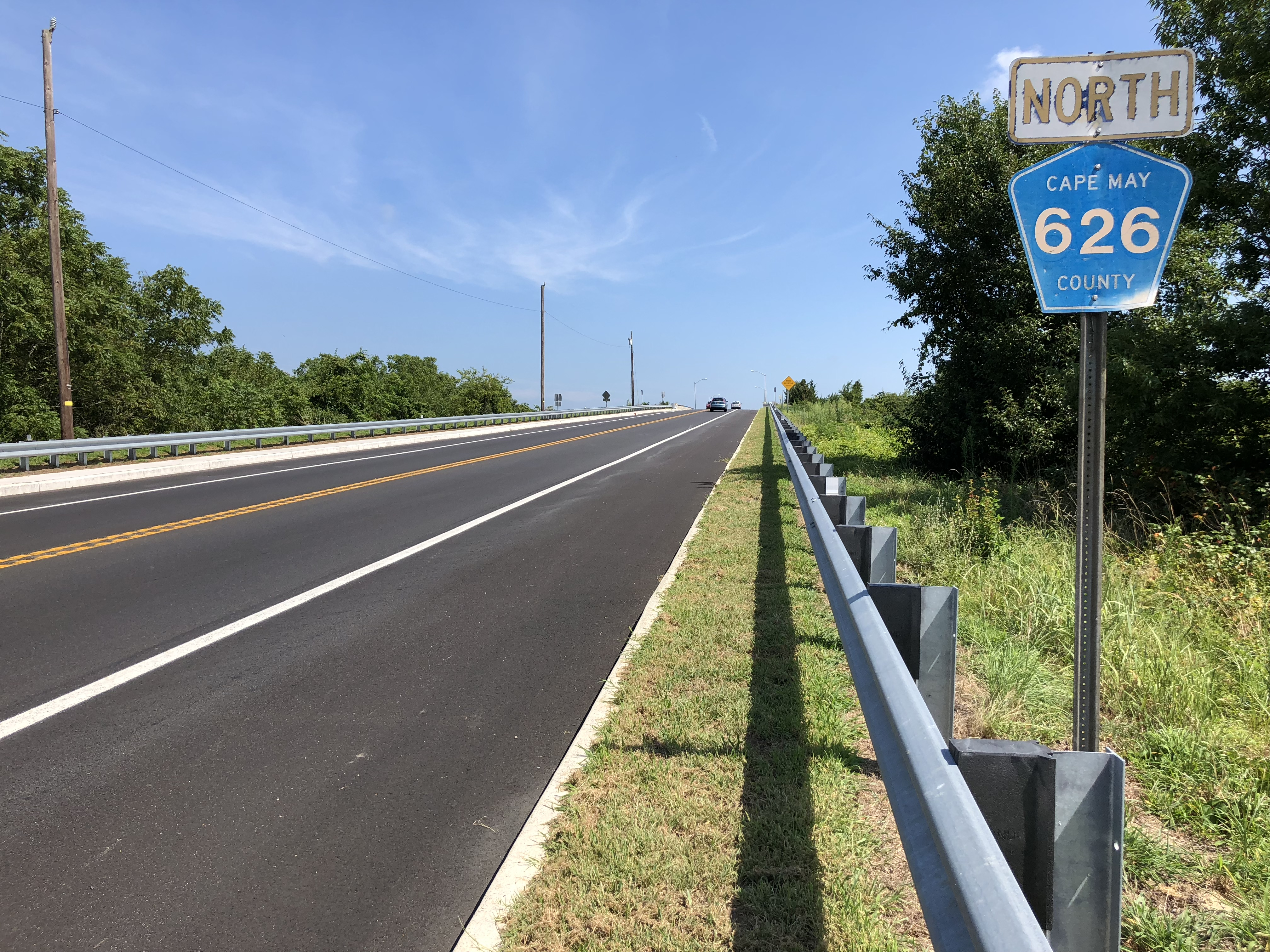 View north along New Jersey State Route 162 and Cape May County Route 626 (Relocated Seashore Road) just north of Cape May County Route 641 (Seashore Road) in Lower Township, Cape May County, New Jersey